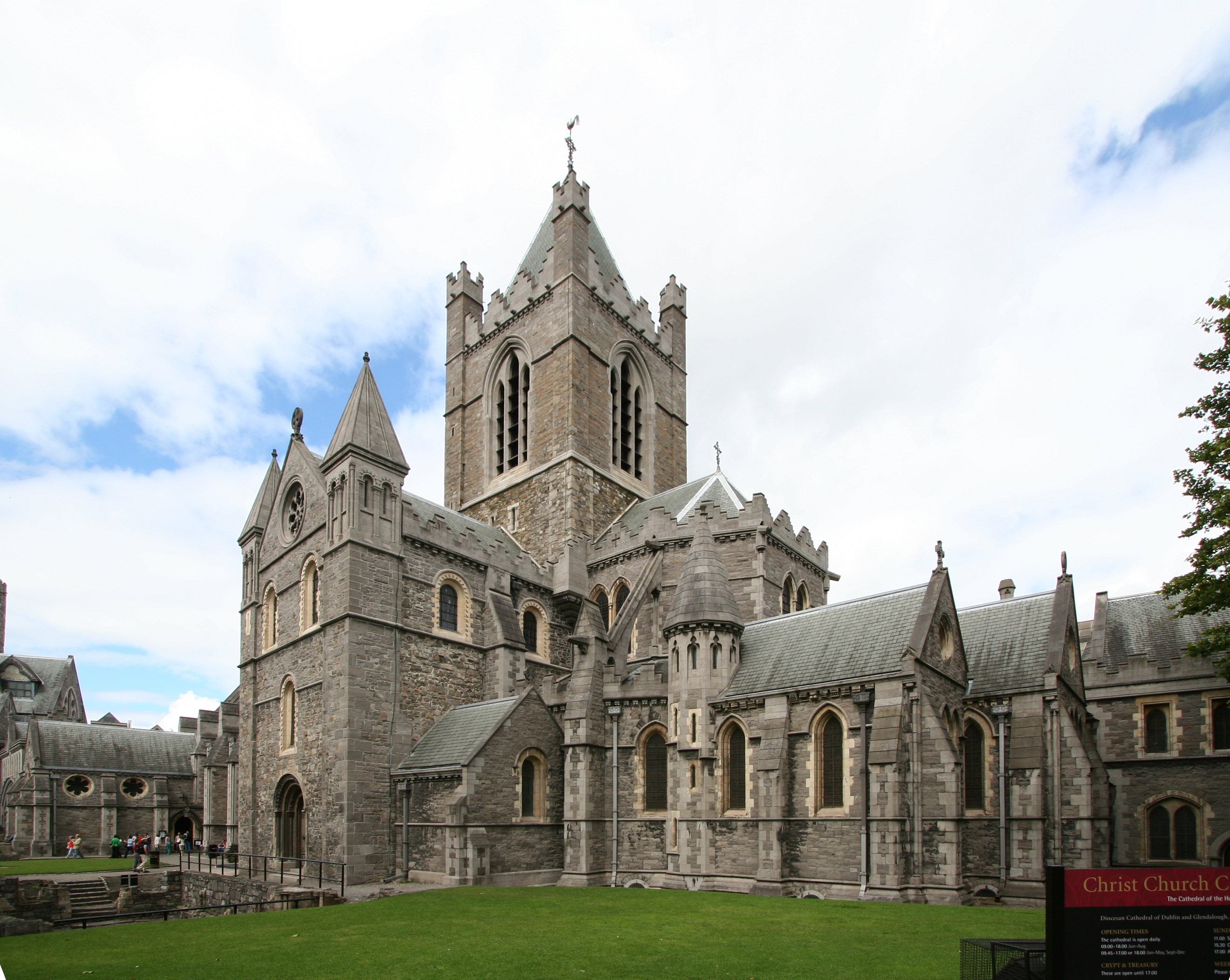 Catedral protestante de Christchurch, Christ Church Cathedral, founded by Sigtrygg c.1028Christchurch